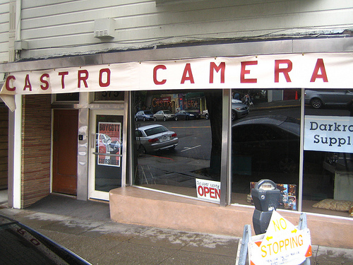 The Castro got a temporary retro makeover for the shooting of the film, "Milk." (exterior of recreated Castro Camera storefront)